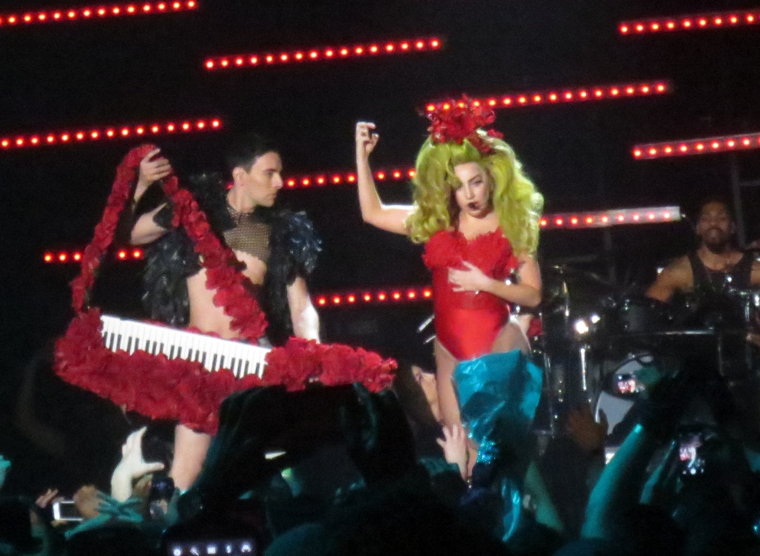 Lady Gaga Roseland "Bad Romance"